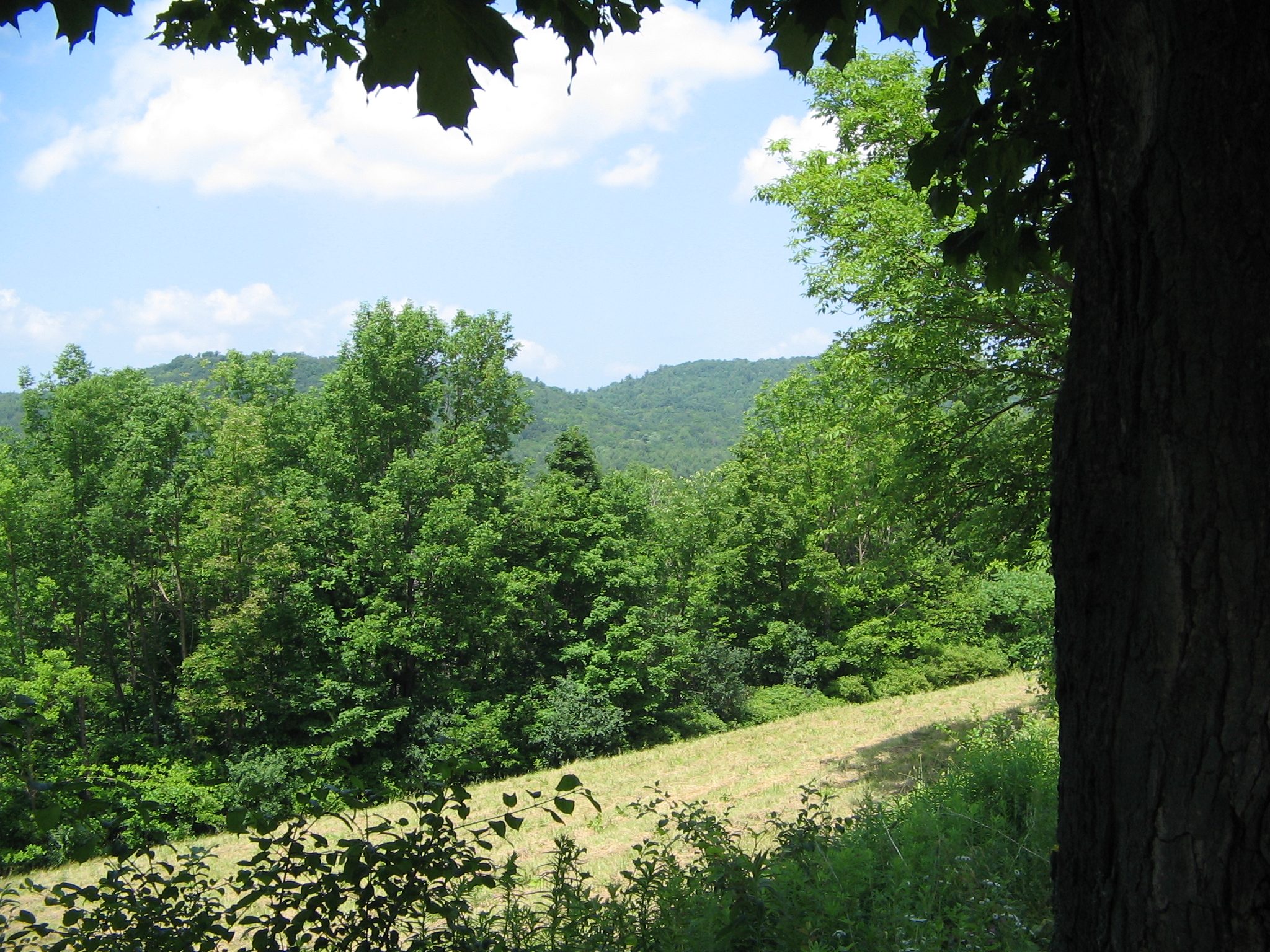 Sergent Hill, north of Hubbardton Battlefield, Hubbardton, Vermont. First Colonial then British forces made their way along a military road through the gap visible in the center background of the photo during the night of 6-7 July 1777; skirmishing occured along the road.